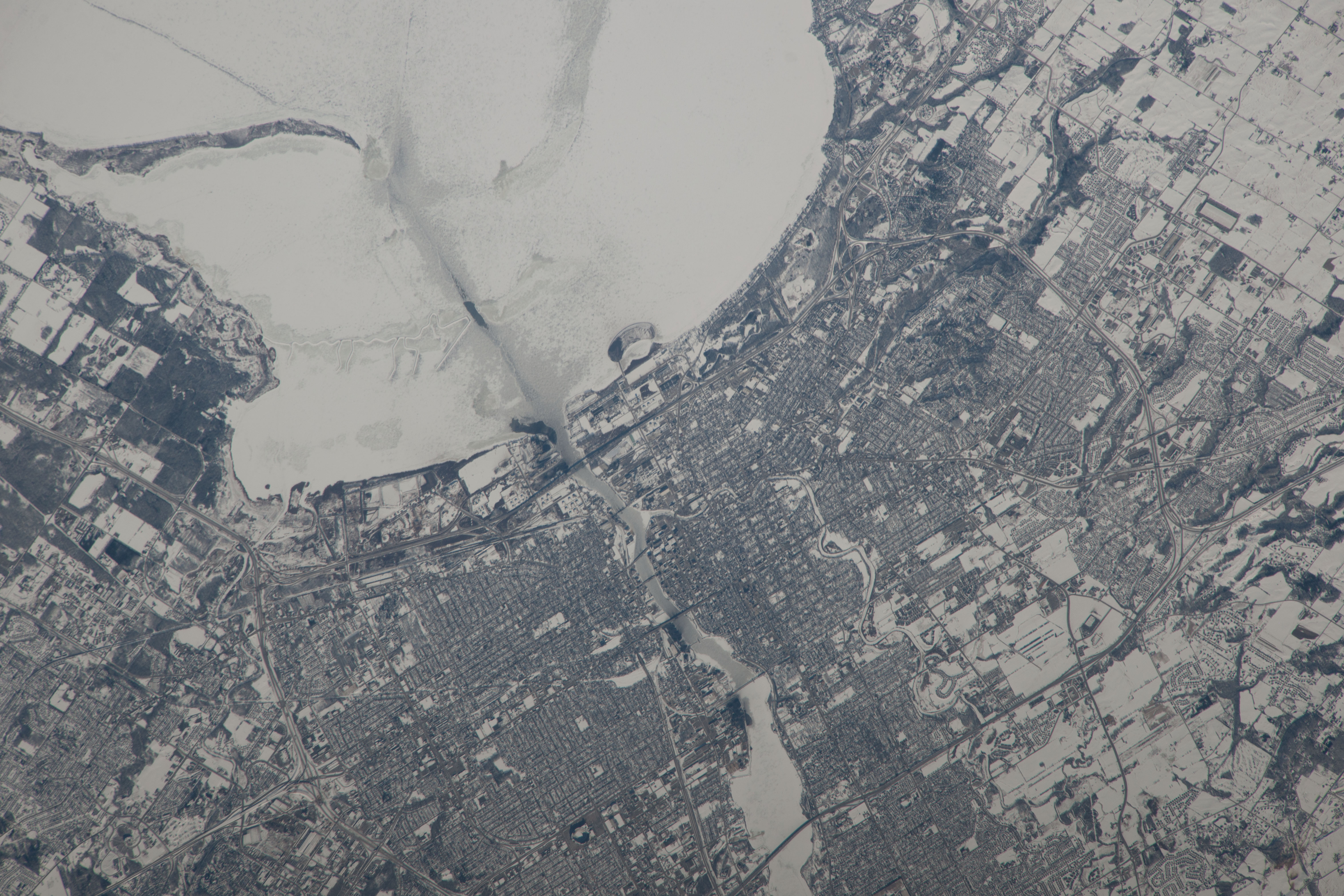 This image, photographed by one of the Expedition 38 crew members aboard the International Space Station, shows the city of Green Bay, Wisconsin at the southern end of icebound Green Bay. This arm of Lake Michigan is six miles wide as seen in this view. The heavy snowfalls of the winter of 2014 cover the landscape. Combined with low sun illumination of a winter day, all surfaces appear as shades of gray. Fields appear brighter (top right, lower right), the cityscape (lower half of the image) appears as a checkerboard of grays, and forests (top left) appear dark. The center of the city lies on the Fox River, one of the few larger rivers in the United States that flow north. Open water appears as dark patches at the mouth of the river where a power station emits warm water. Thinner (grayer) ice can be detected where slightly warmer water extends from the river mouth towards Long Tail Point, an ancient shoreline of the bay. Crews aboard the space station do not usually take such detailed photographs because of the difficulty of getting sharp images with long lenses (in this case a 1000mm lens). Streets and bridges crossing the Fox River appear quite clearly.